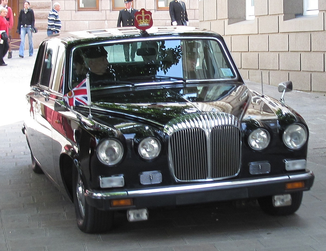 Liberation Day, 9 May 2010, Jersey